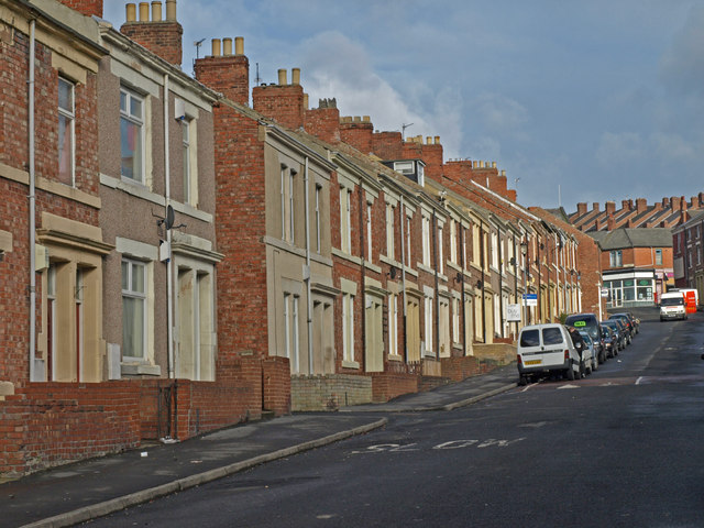 Northbourne Street, Gateshead Typical Tyneside flats.